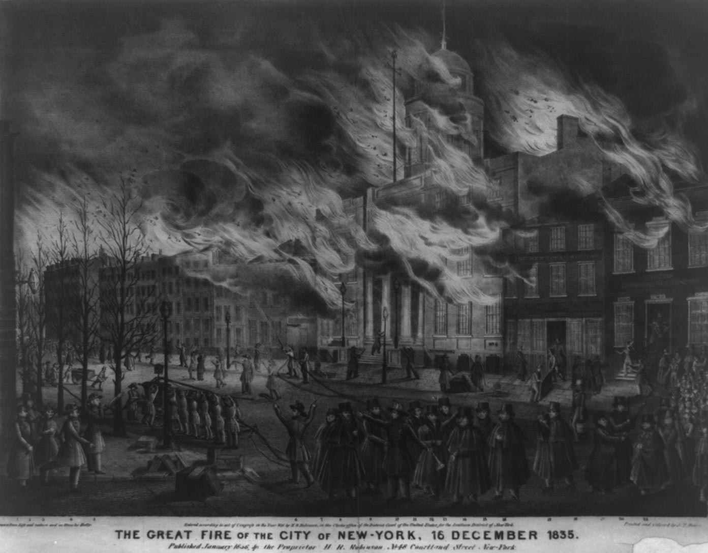 The great fire of the city of New York, 16 December 1835